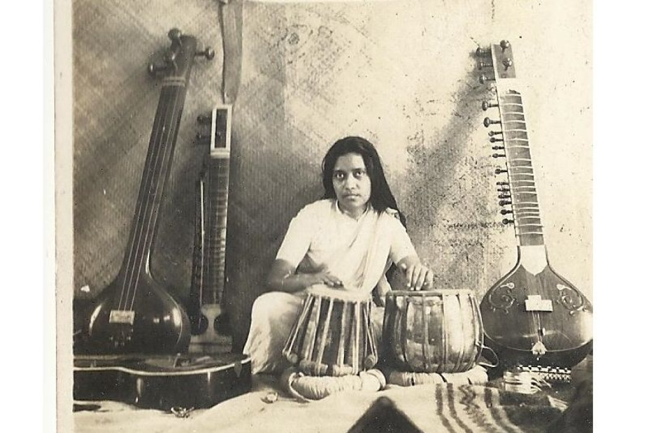 picture of Dr. Purnima Sinha